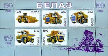 Stamp of Belarus